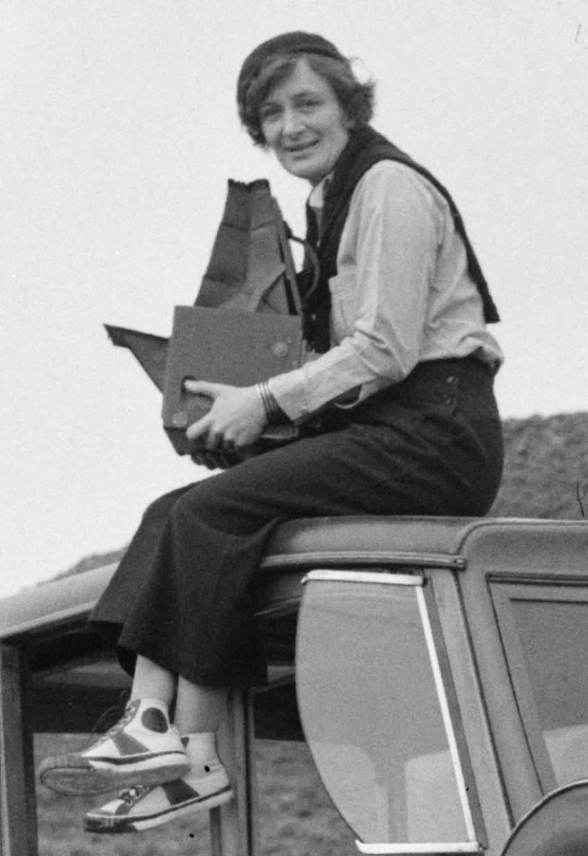 Dorothea Lange, Resettlement Administration photographer, sitting atop a Ford Model 40 in California. In her lap is a Graflex 4×5 Series D camera.